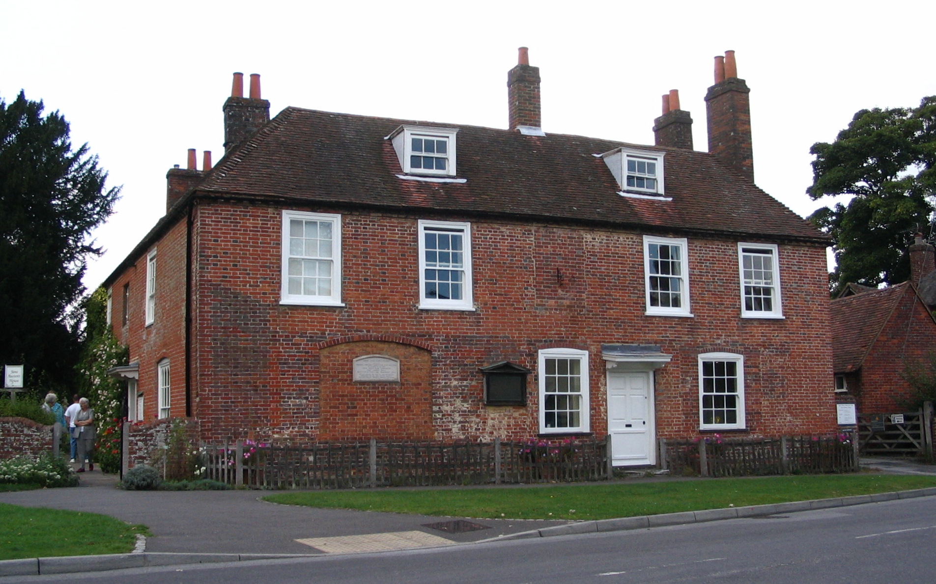 Jane Austen lived here, in Chawton, during her final years.